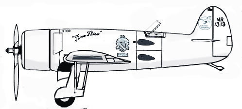 DRAWING